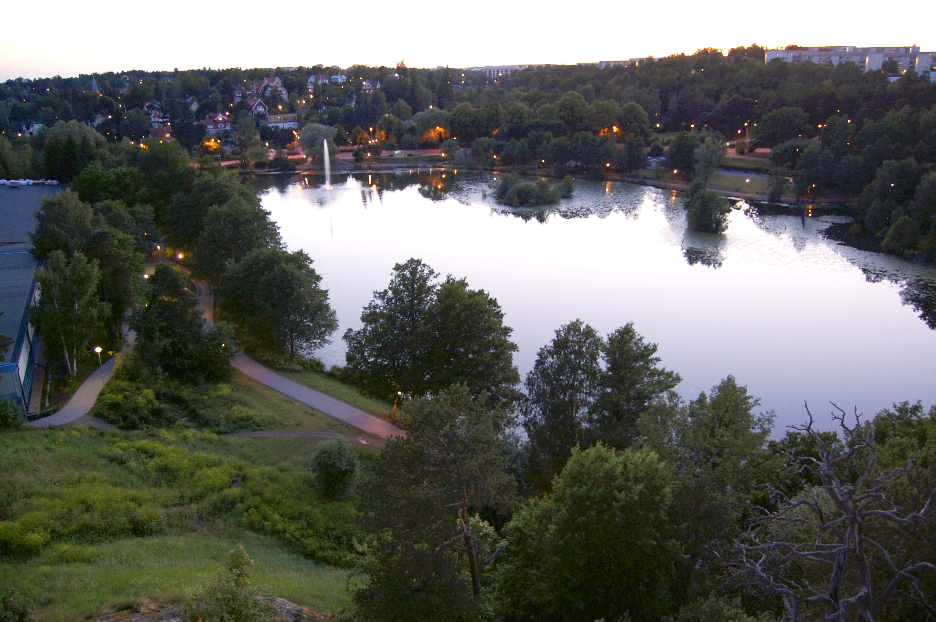 A picture of Lötsjön (translates into "Lake Meadow", "Pasture lake") located in Sundbyberg